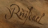 Jacob van Ruisdael signature on Landschap met waterval, c. 1660s